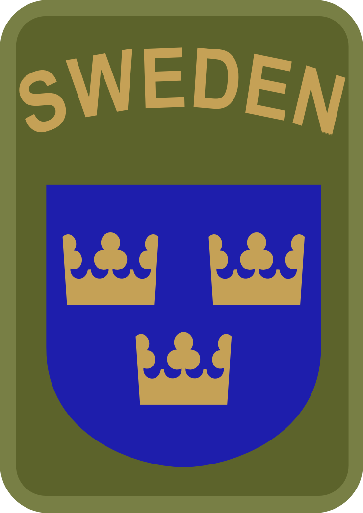 Coat of arms of the Foreign Force of the Swedish Armed Forces.